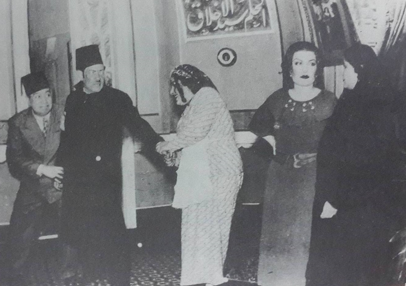 Naguib el-Rihani with mimi shakeeb and the rest of the group, performing on stage in a play entitled "Thalathoun Yawm fi Al-sijn" (Thirty days in prison), which played in 1941.